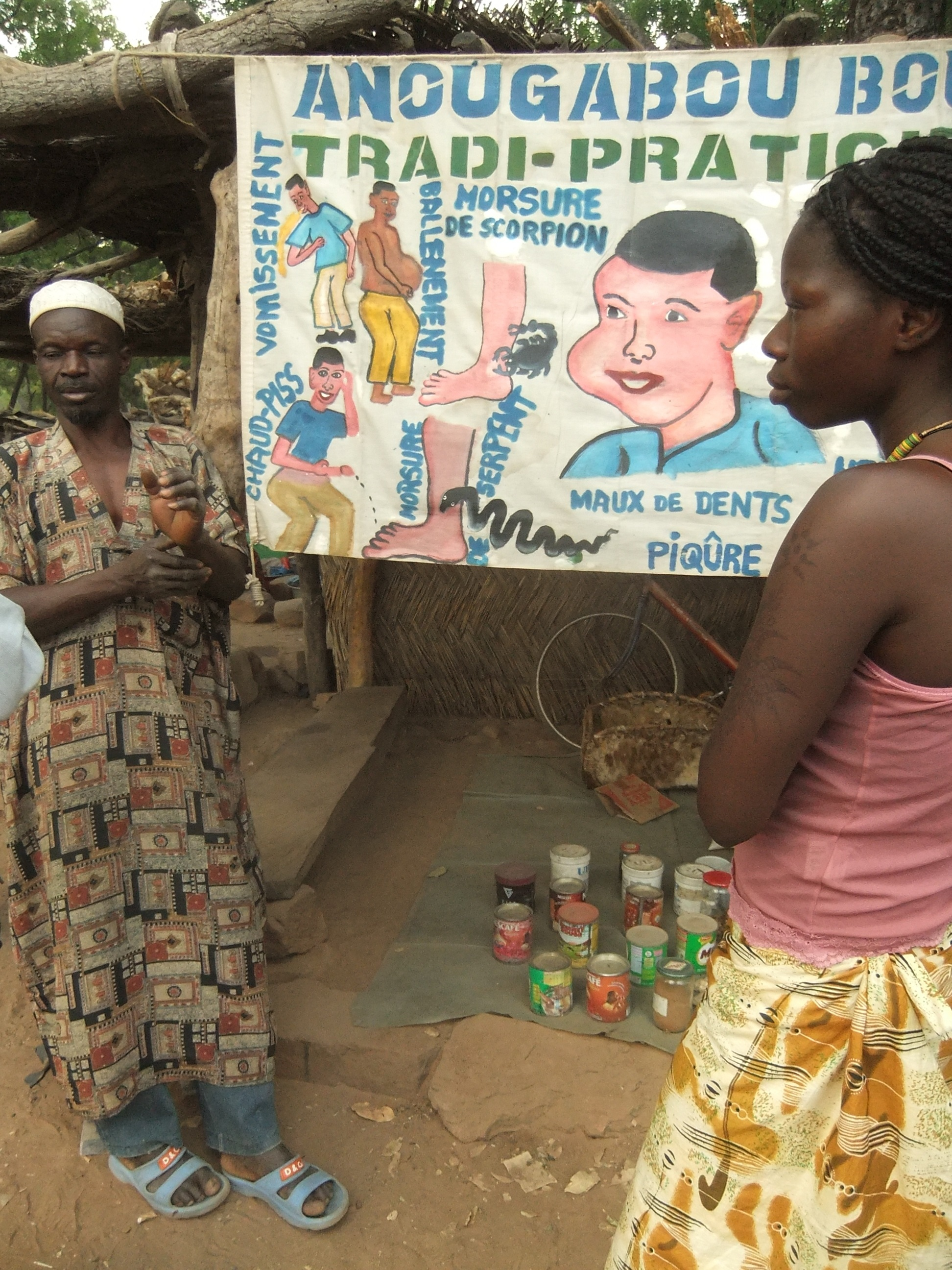 Tiebele, Burkina Faso This is an image of "African people at work" from Burkina Faso